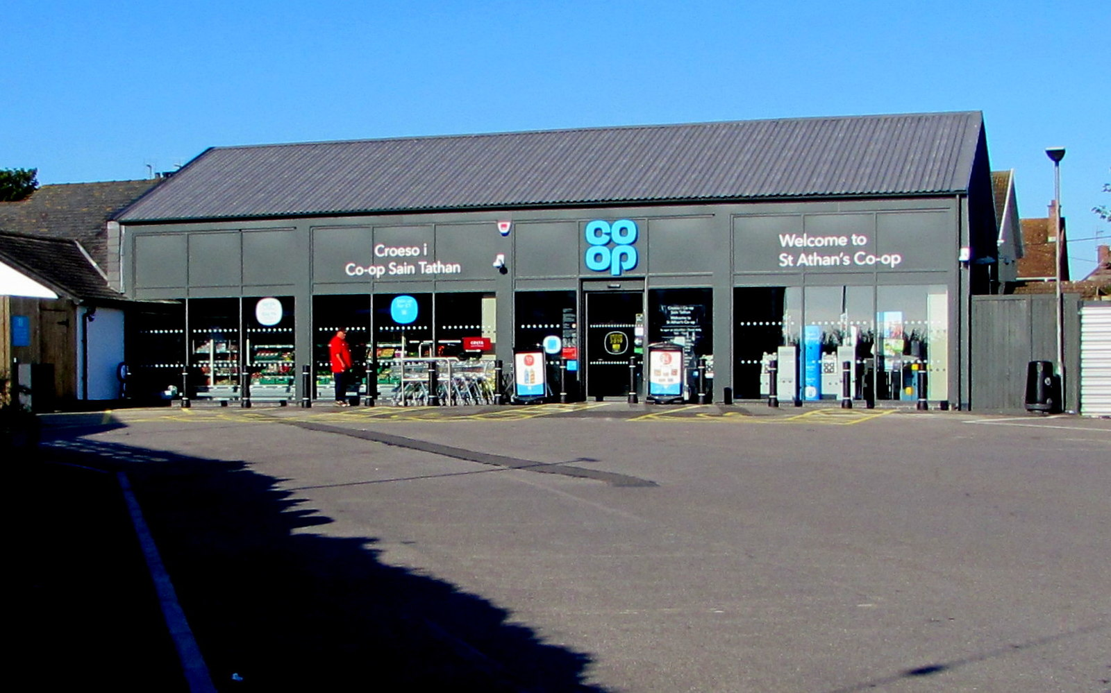 Co-op, St Athan. Set back from the west side of Gileston Road viewed in September 2019. A May 2016 Google Street View shows a derelict former car sales business here.